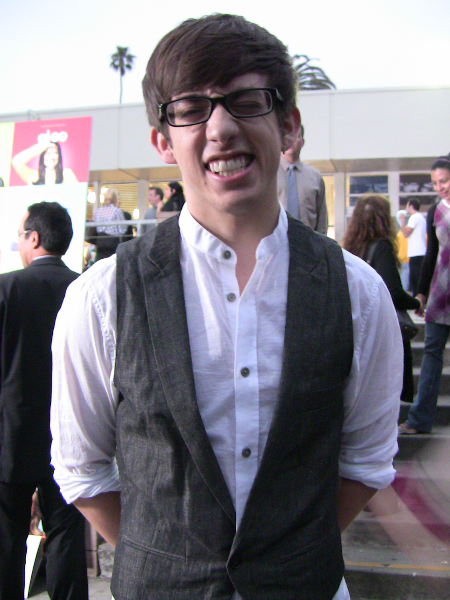 Actor Kevin McHale at the premiere party of TV series Glee, Santa Monica, California.